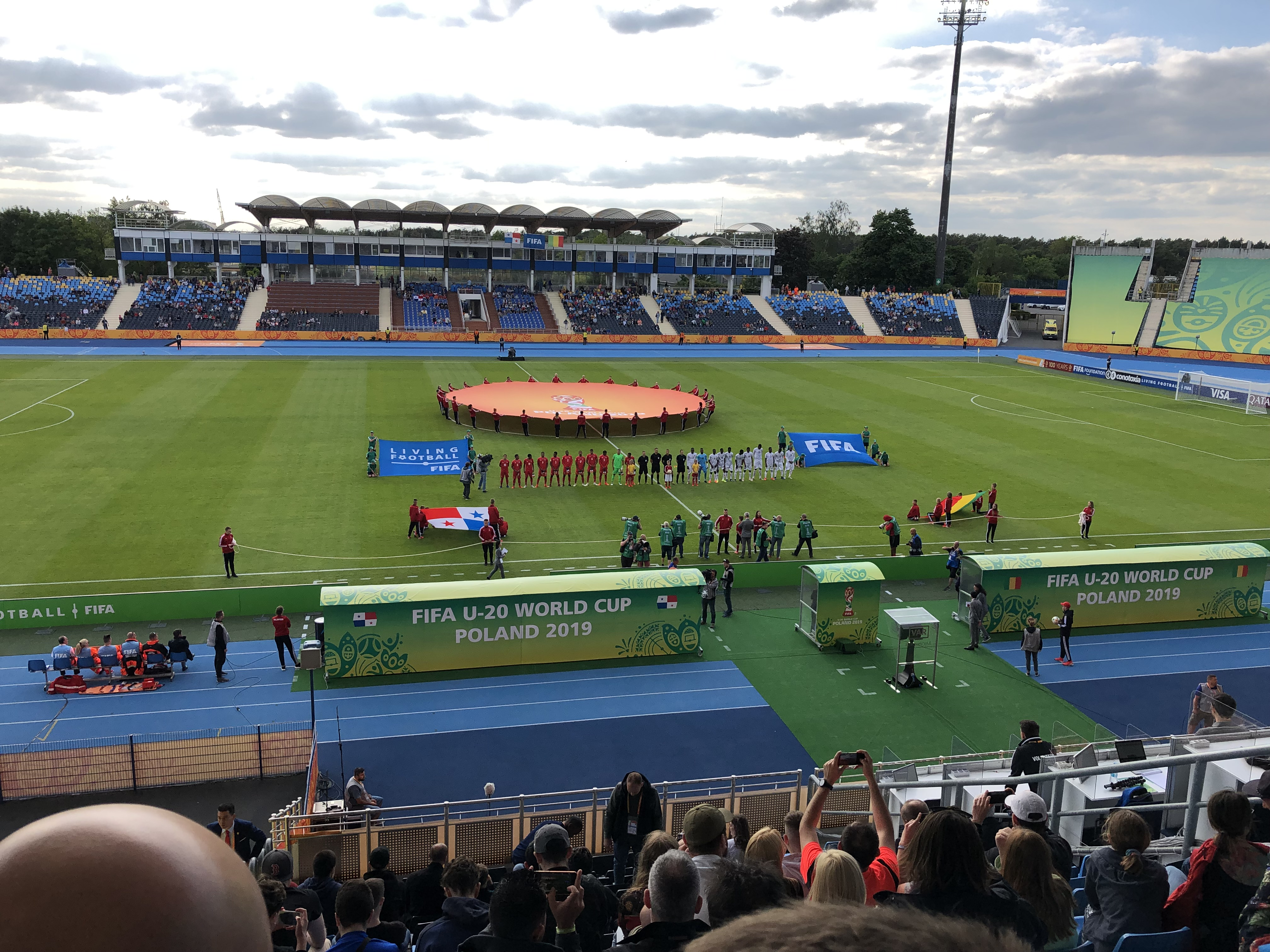 Panama v Mali - FIFA U20 WC 2019